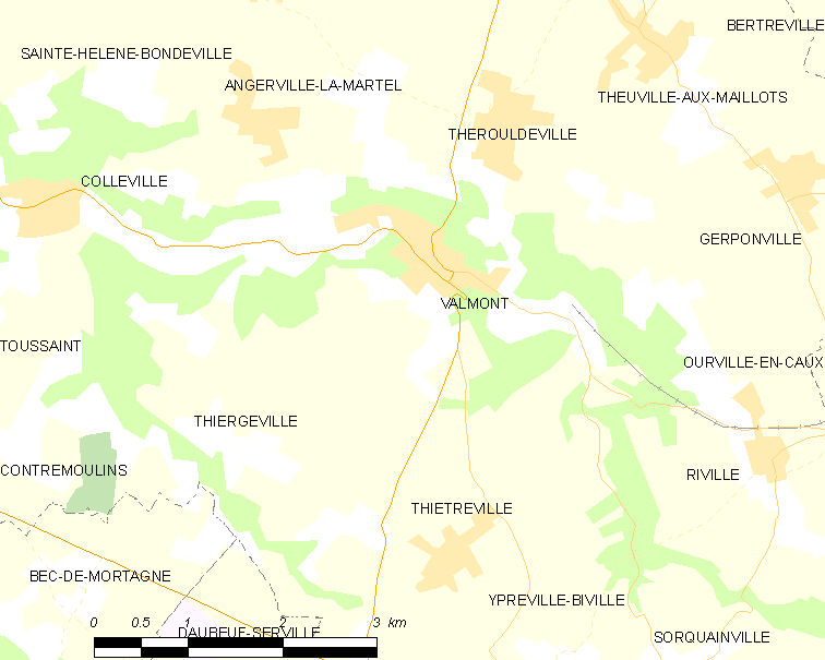 Map of French municipality Valmont